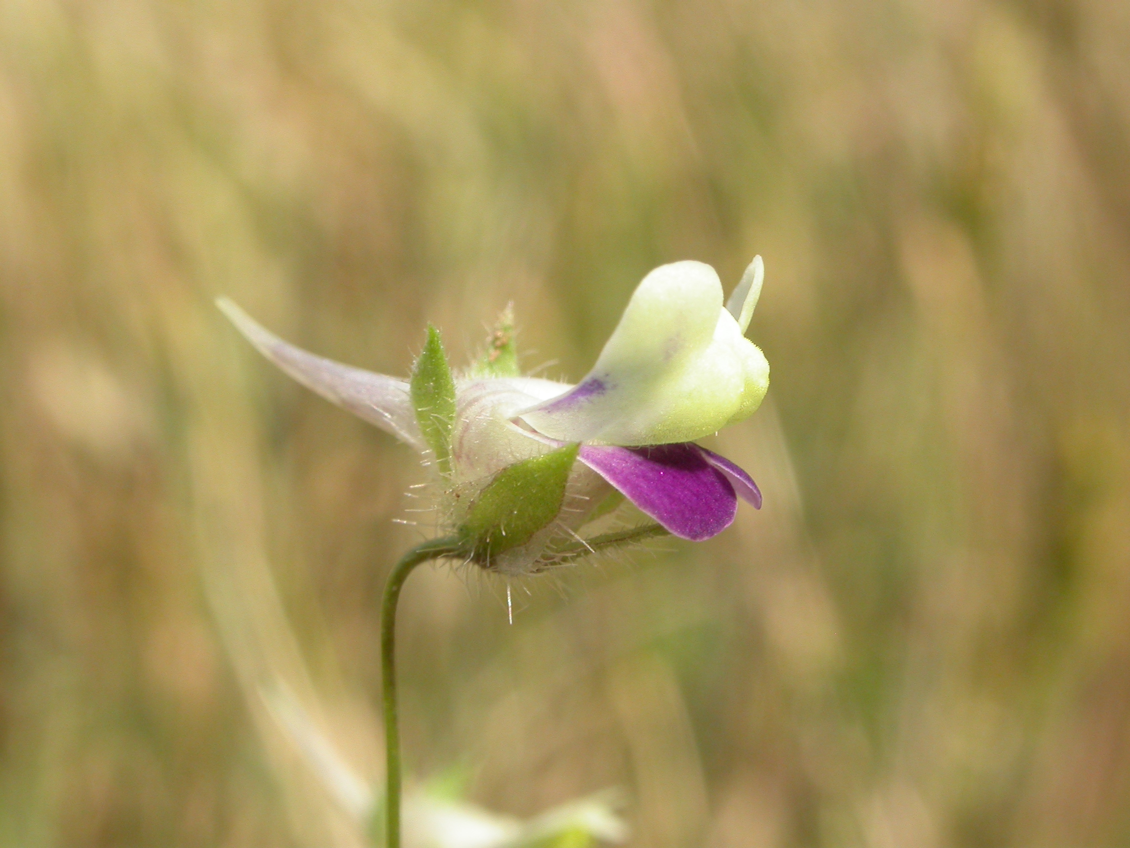 Kickxia elatine